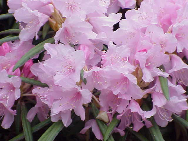 Species: Rhododendron makinoi Family: Ericaceae Image No. 1